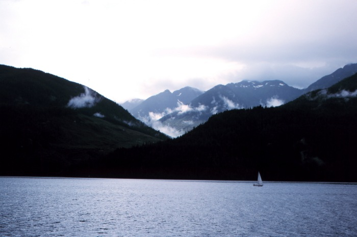 Inside Passage, British Columbia, Canada